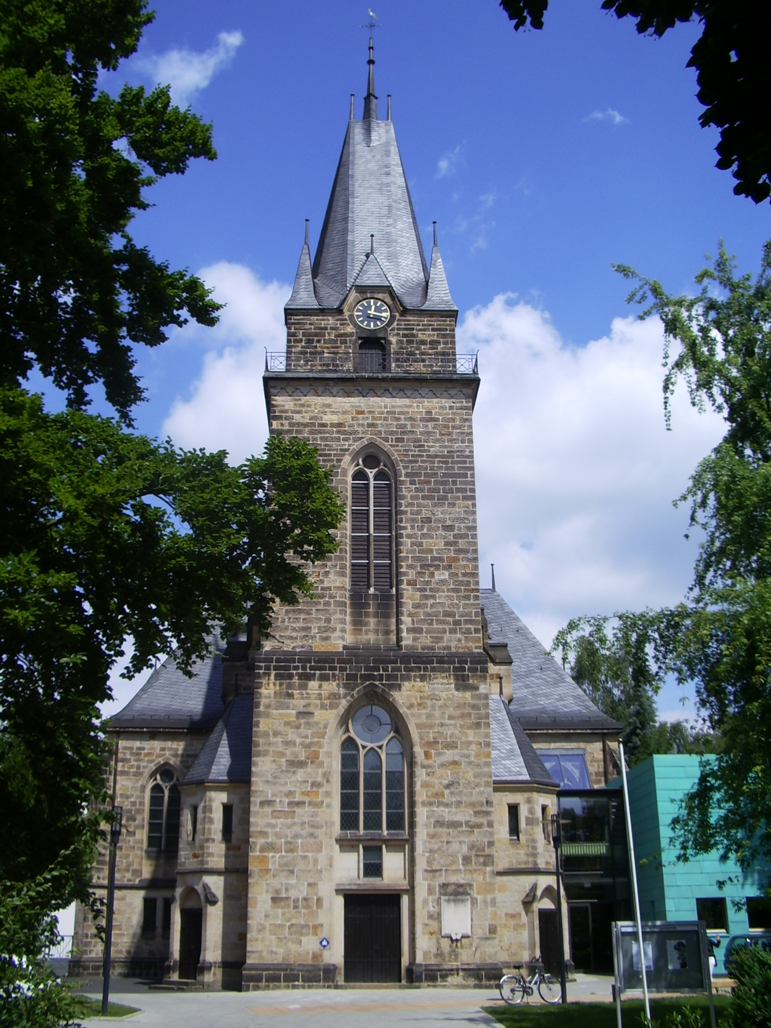 St. Peter Church in the city of Herford, district of Herford, North Rhine-Westphalia, Germany.